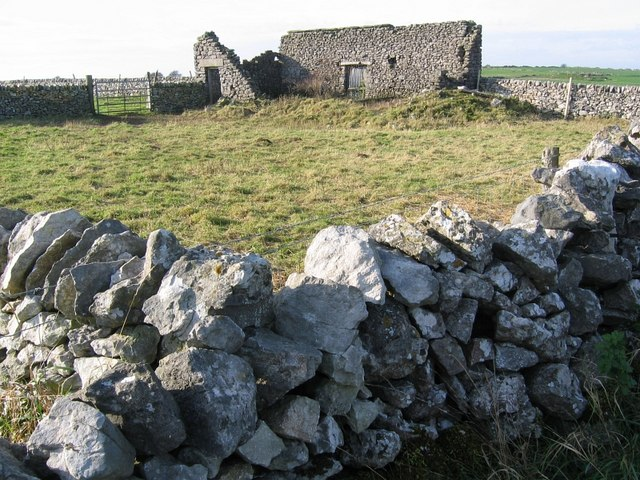 Ruined barn near Leys One of many ruined limestone field barns in the area.